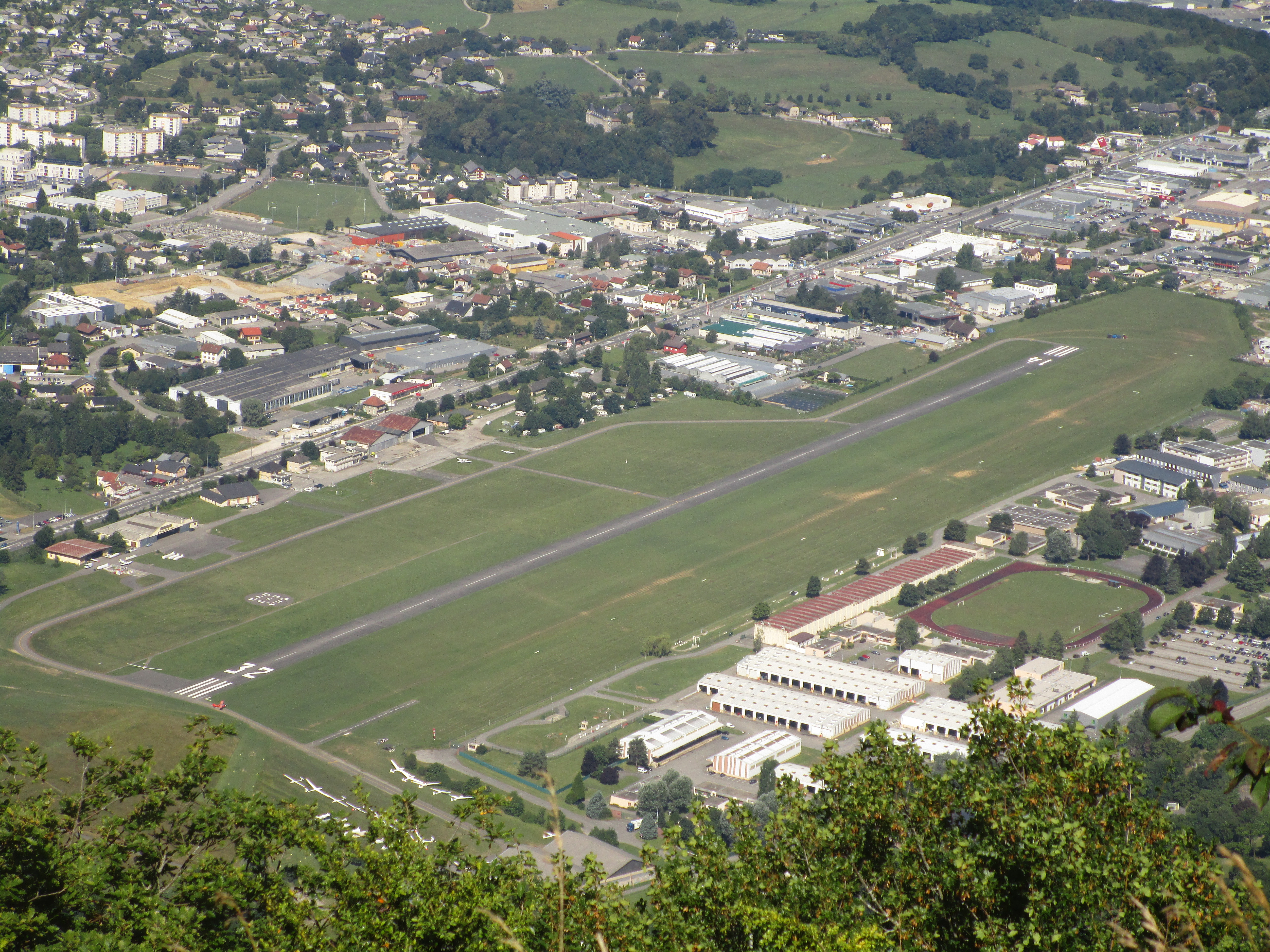 The Chambéry Challes-les-Eaux aerodrome (Savoie, France) on August 3, 2017.